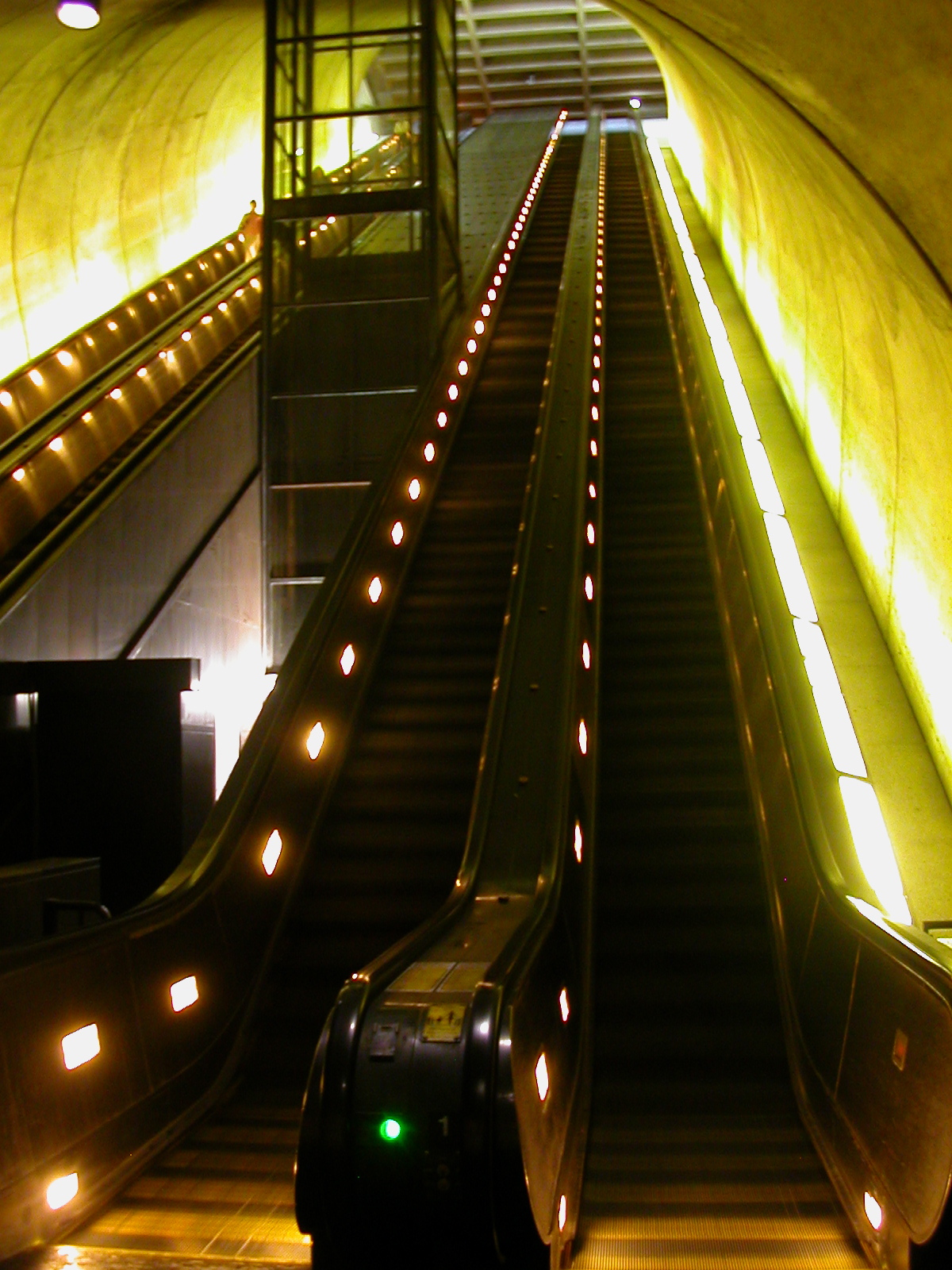 At 205 feet, 8 inches, the escalator to street level at the Rosslyn Metro station is the third longest continuous span escalator in the world.